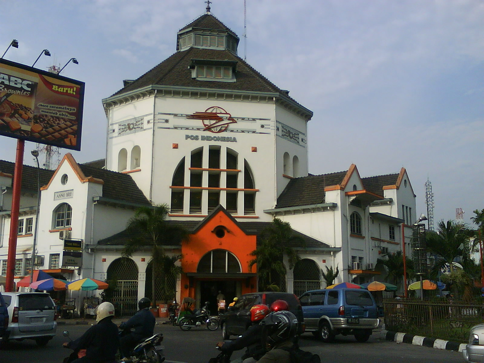 The old post office in Medan, built on 1909